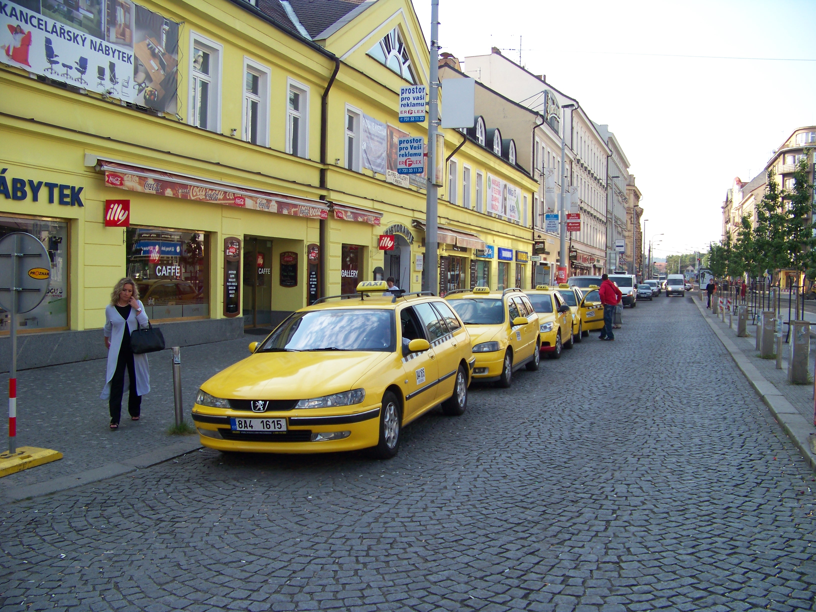 Smíchov, Prague, the Czech Republic. Nádražní street, a taxicab stand.